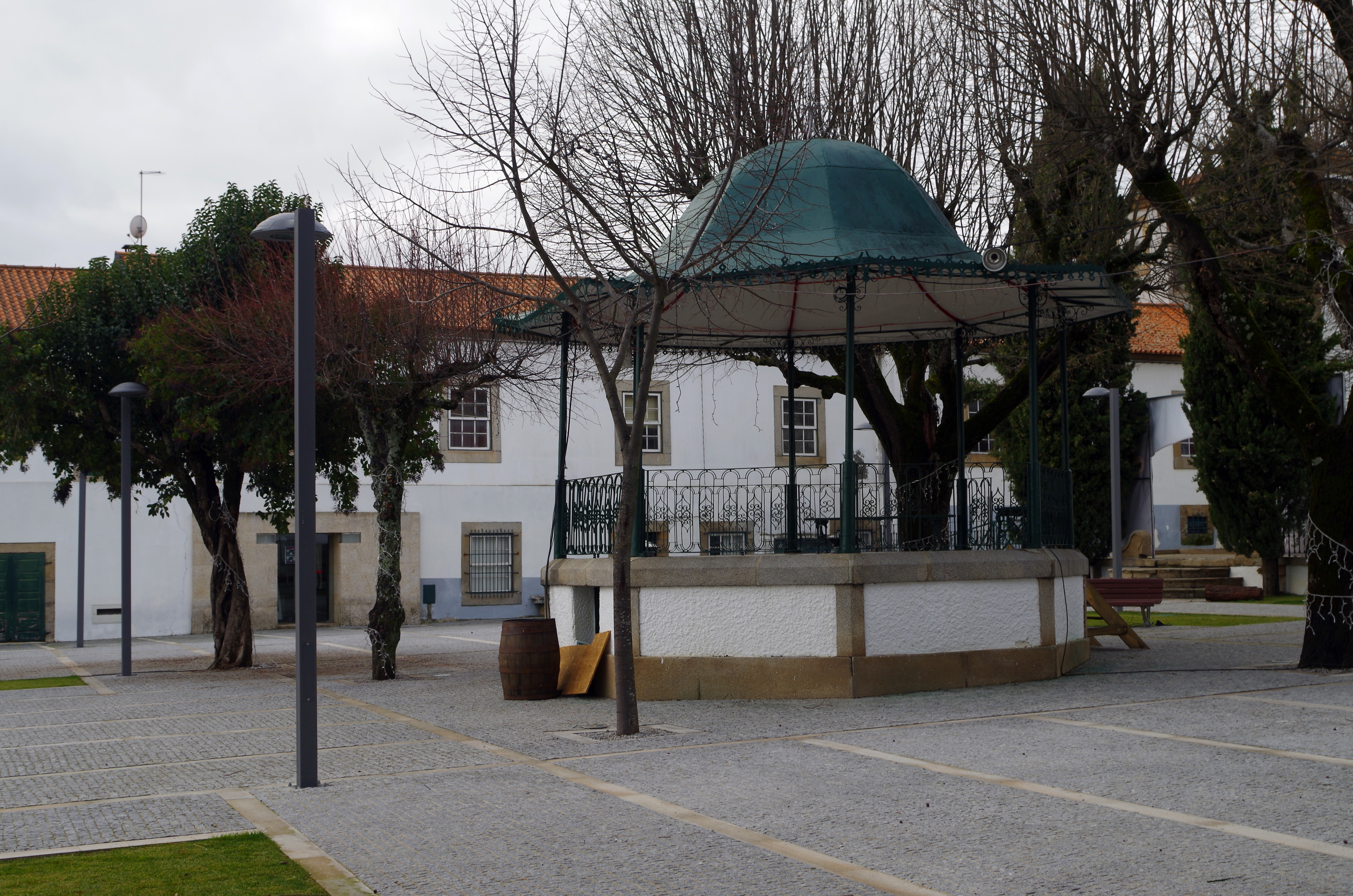 Bandstand at the municipal garden in Pinhel (Guarda, Portugal).